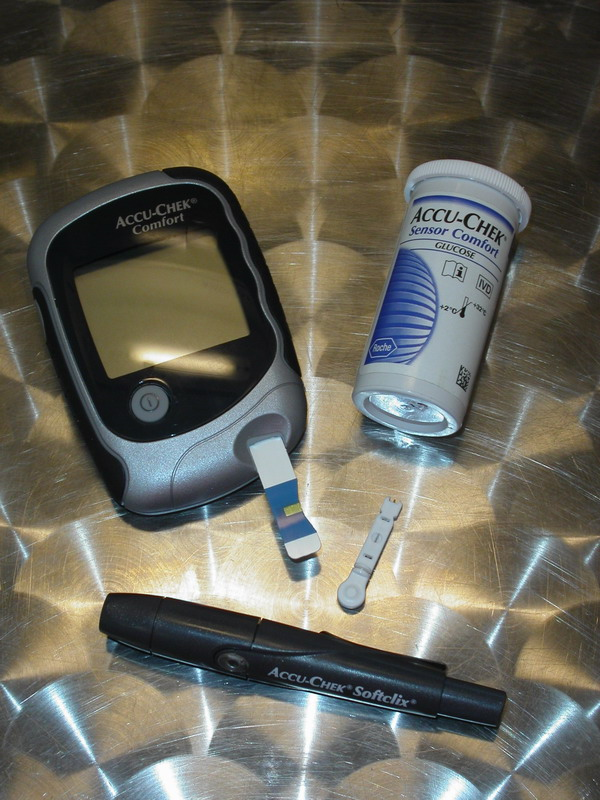 Roche Diagnostics Glucose Meter Accu-Chek and accessories